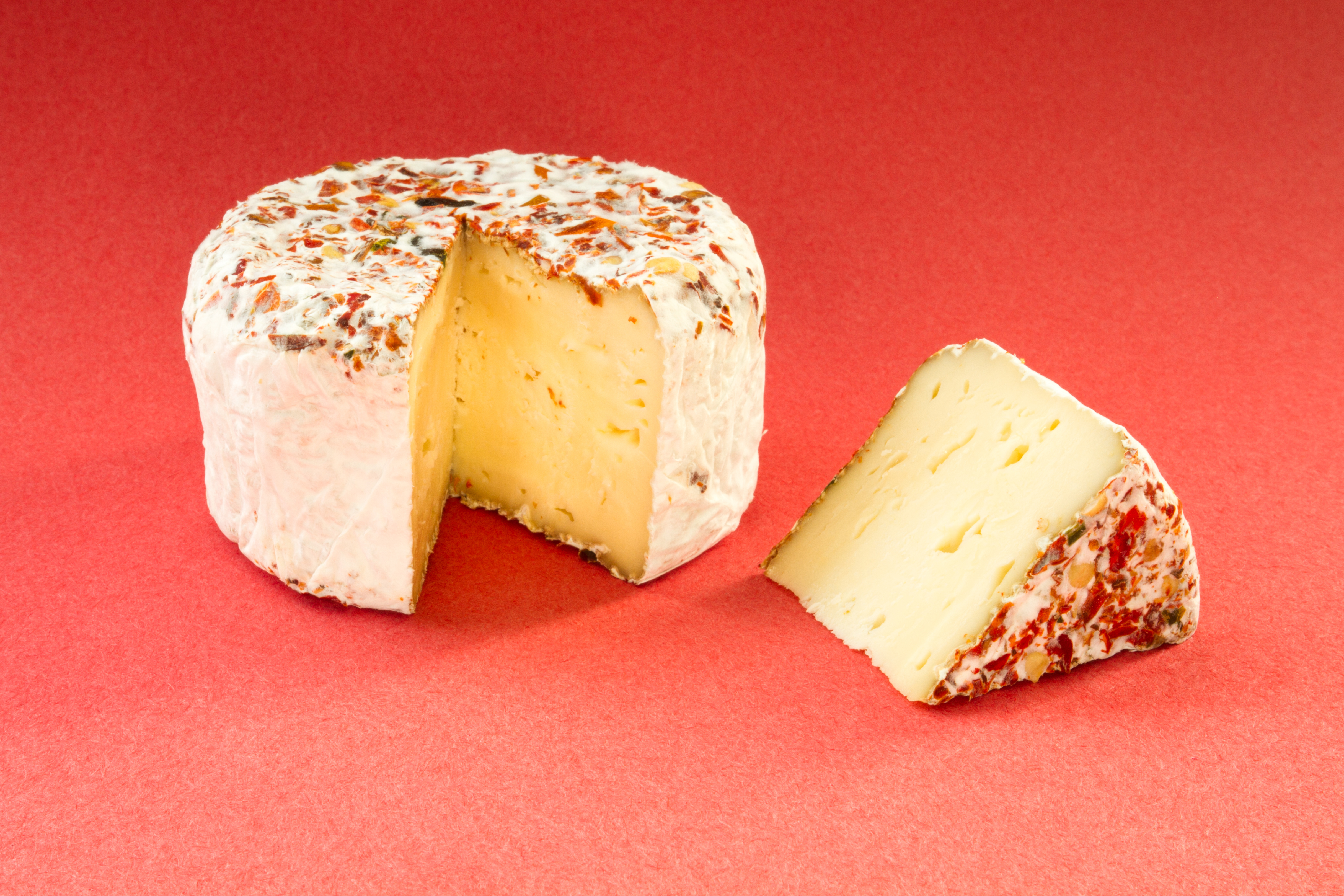 Devil’s Gulch, a winter seasonal cheese by Cowgirl Creamery, Petaluma, CA. The cheese is made of organic, pasteurized milk. Its rind is dusted with sweet and spicy pepper flakes.